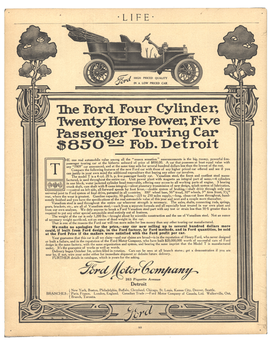 Ford Model T advertisement from LIFE magazine, October 1908